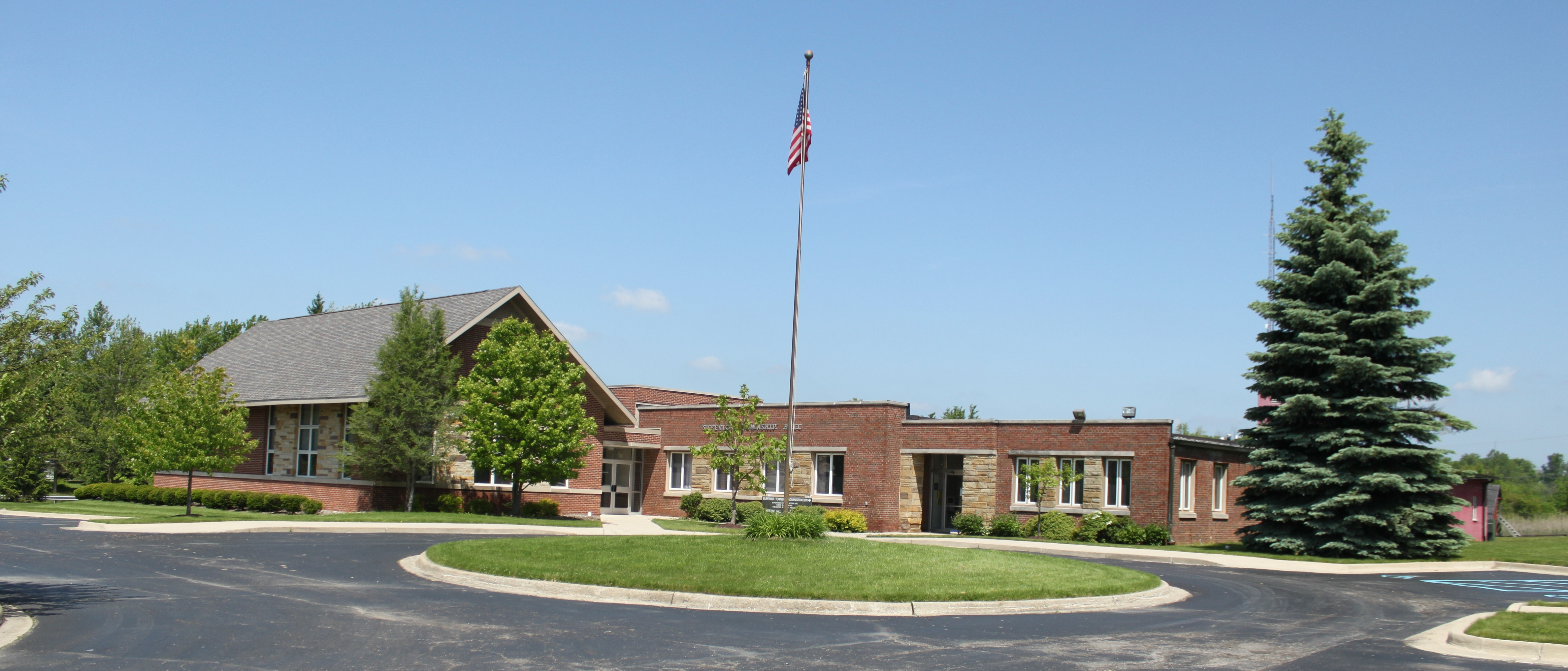 Superior Township, Washtenaw County, Michigan, Town Hall